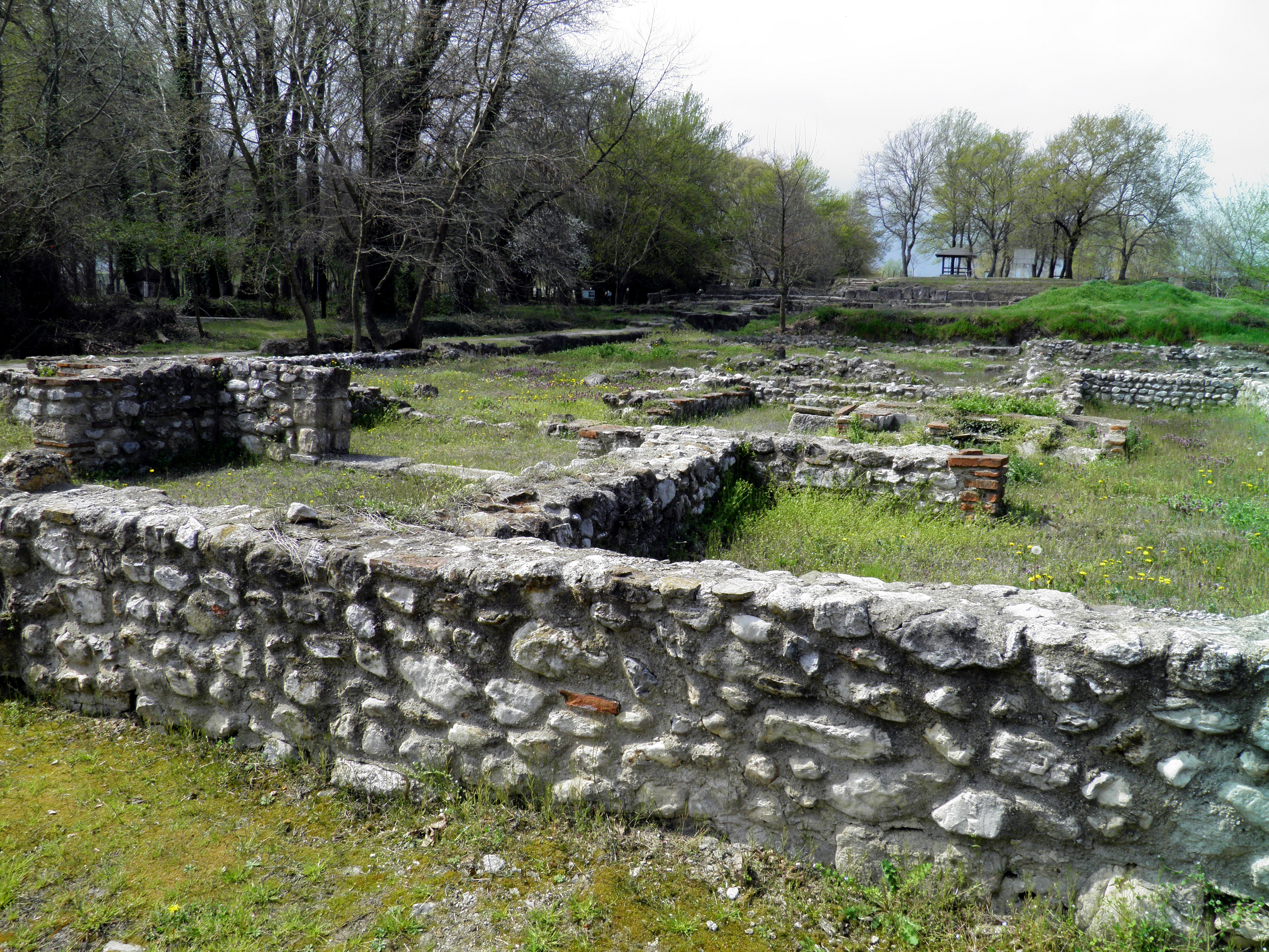 House of Zozas A spacious residence uncovered in the southeast sector of the city evidently belonged to a person named Zosas, as recorded in an inscription on the mosaic emblem on the floor of the central hall. Most of the rooms in the building had mosaic floors decorated with geometric patterns and panels with depictions of birds. A strange construction with three cists lined with marble is preserved in the central hall, while a shrine alcove with pedestral of a small statue survives in the southeast room. House of Leda The house of Zosas was but a stone's throw from the south wall of the city and separated by only a narrow cobbled passage from the adjacent «House of Leda», which owes its conventional name to a table support with representation of Leda and the swan sculptured in the round, which adorned the formal hall of the residence. Set on the south of the hall were two other table supports, one with a representation of Dionysos in relaxed pose, and the other with a hybrid figure, with head and foot of a lion. Two sculptured busts of children, with the distinctive hairstyle of devotees of the goddess Isis, were also found in the same room.